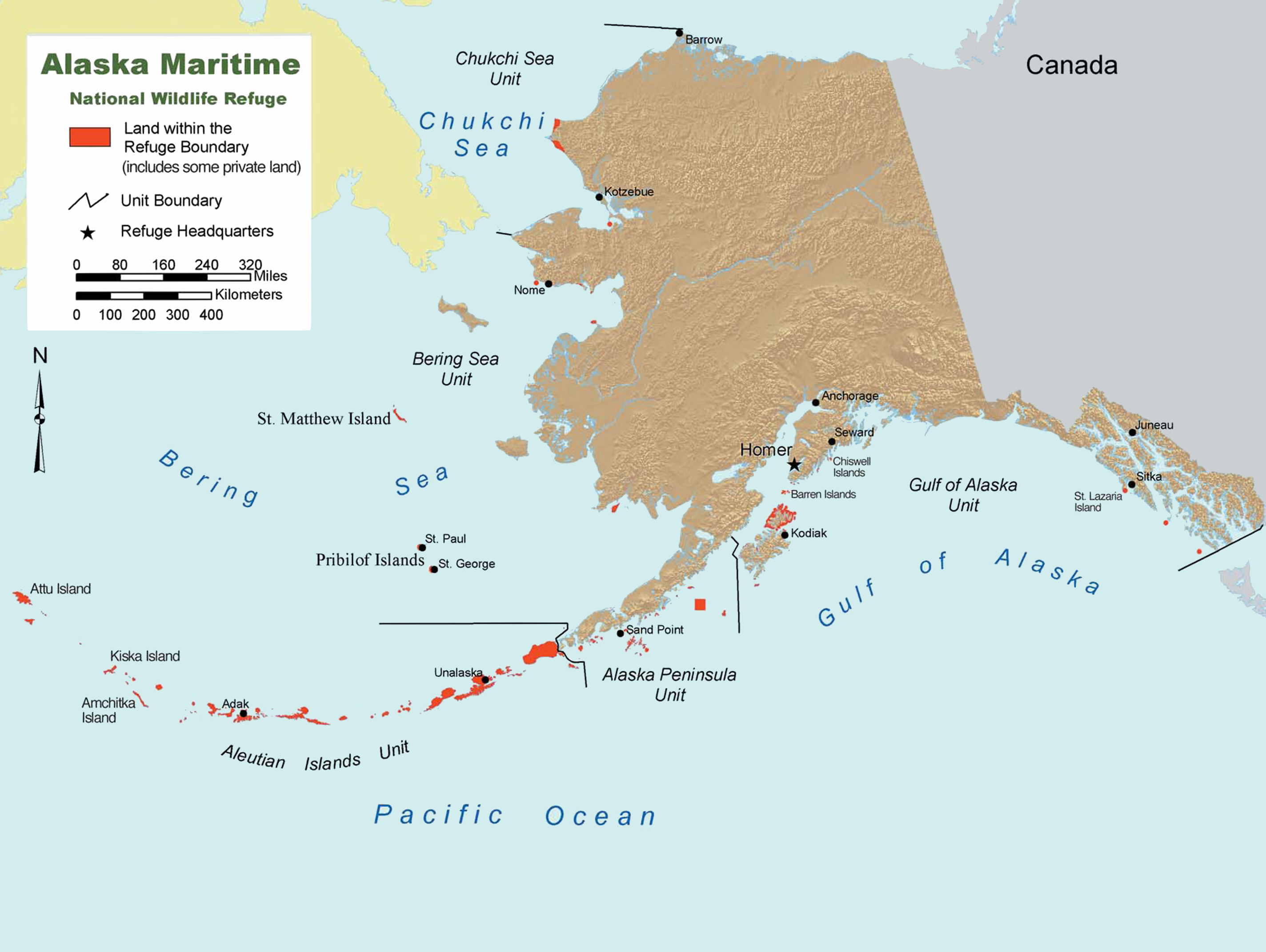 Alaska Maritime National Wildlife Refuge map